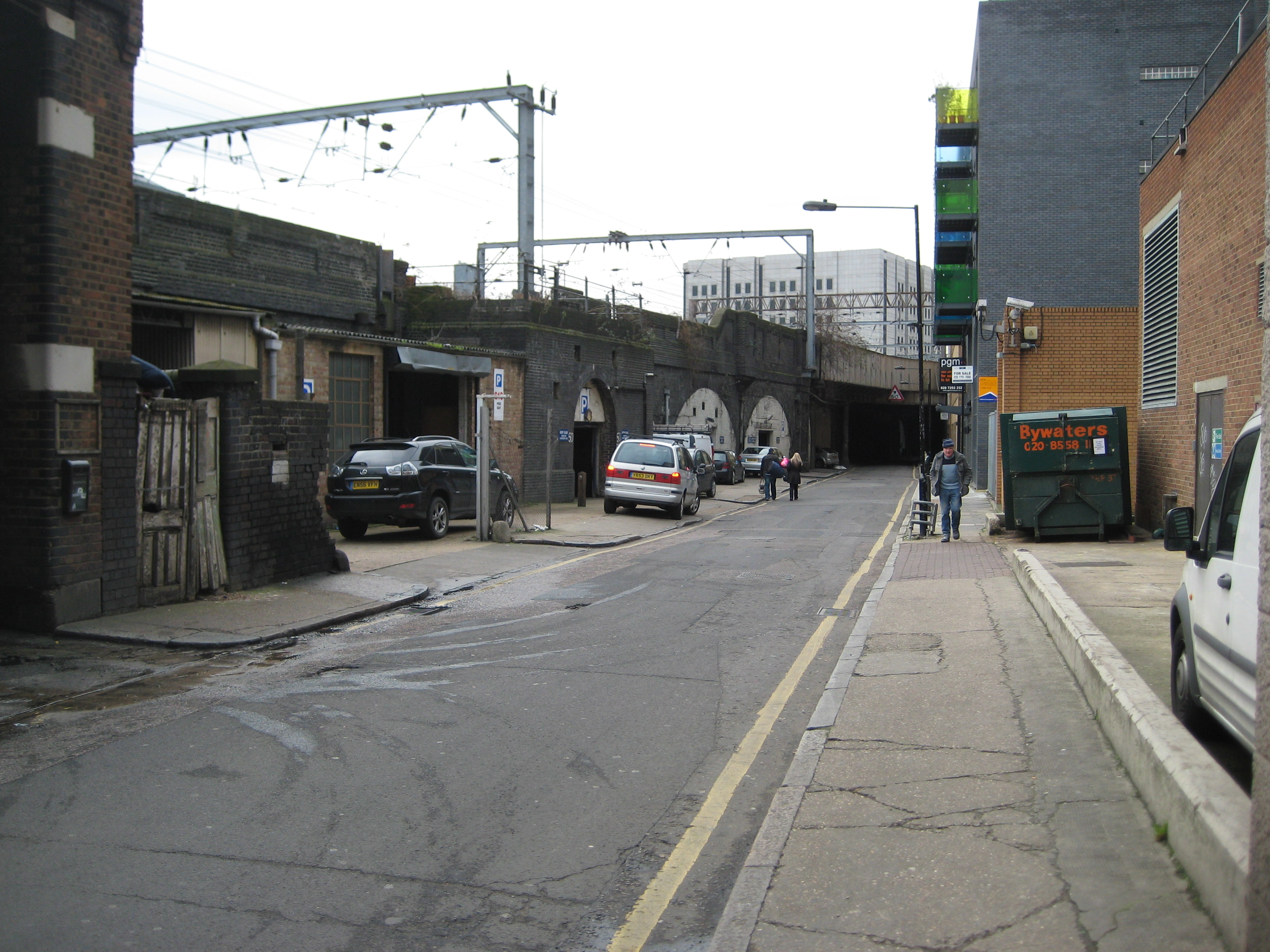 Chamber Street, E1 Chamber Street runs alongside the C2C railway near Fenchurch Street station.